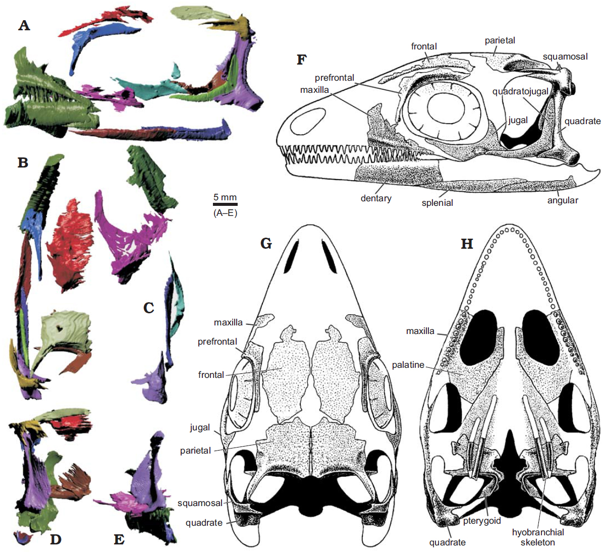 Tomographic three-dimensional representations of the skull bones of ZPAL AbIII/3191 long-necked reptile Ozimek volans gen. et sp. nov. in their proposed original arrangement (A–E) and restorations of the skull (F–H); in lateral (A, F), dorsal (B, G), palatal (C, H), posterior (D), and anterior (E) views. F–H not to scale.